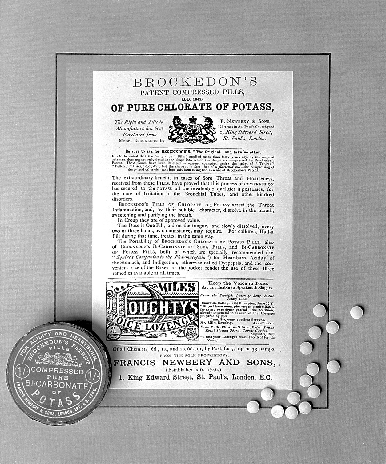 W. Brockedon's pills: pills, pill-box, and leaflet advertising Brockedon's Patent Compressed Pills of Pure Chlorate of Potass and of Pure Bicarbonate of Potass. From the Wellcome Institute Wellcome Images Keywords: Tablets; William Brockedon